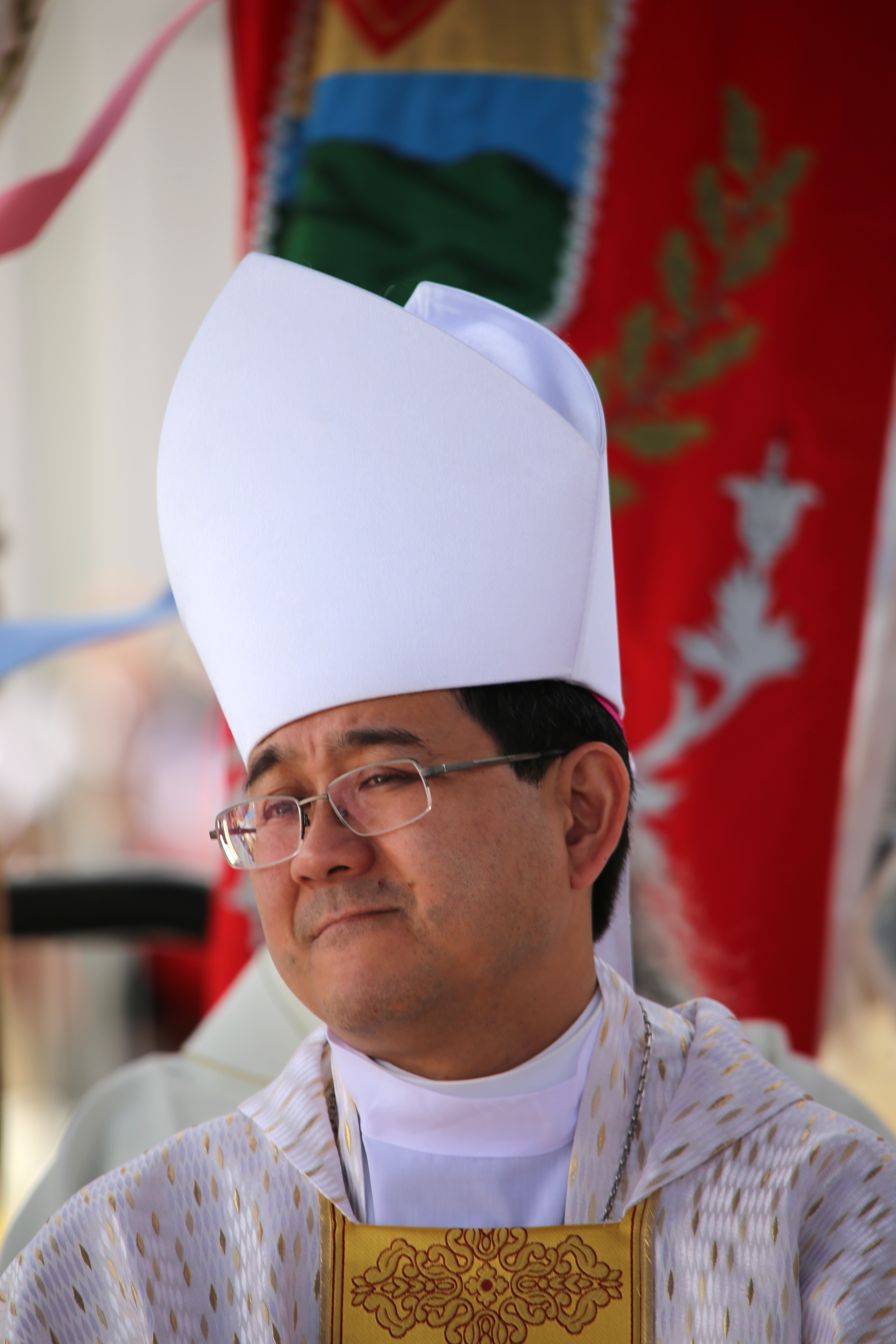 Bishop Julio Endi Akamine